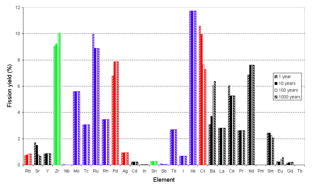 File:Fission_yield.png with some recoloring to indicate elements with volatile fluorides